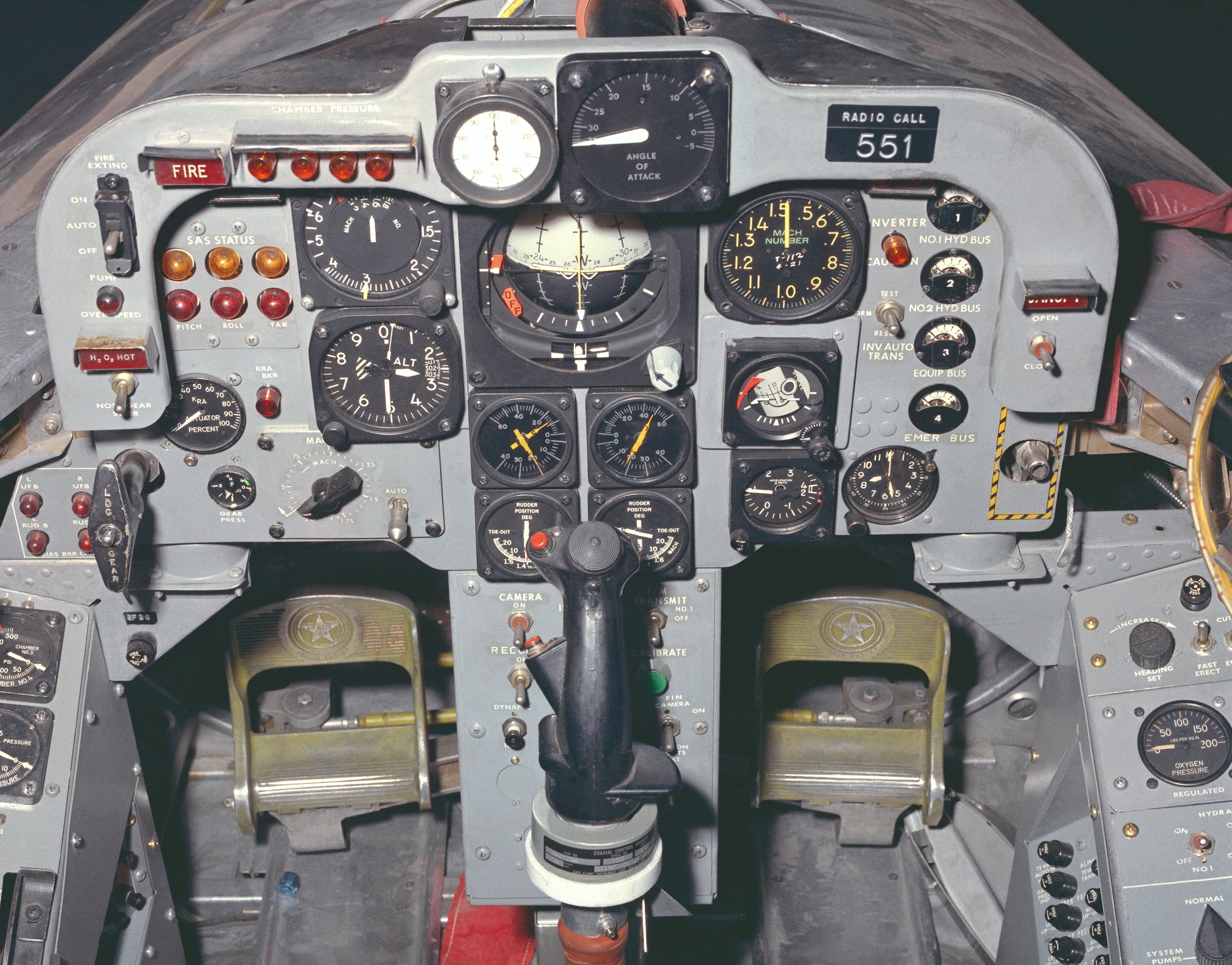 Martin-Marietta X-24B's cockpit instrumentation panel